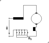 Electric motors